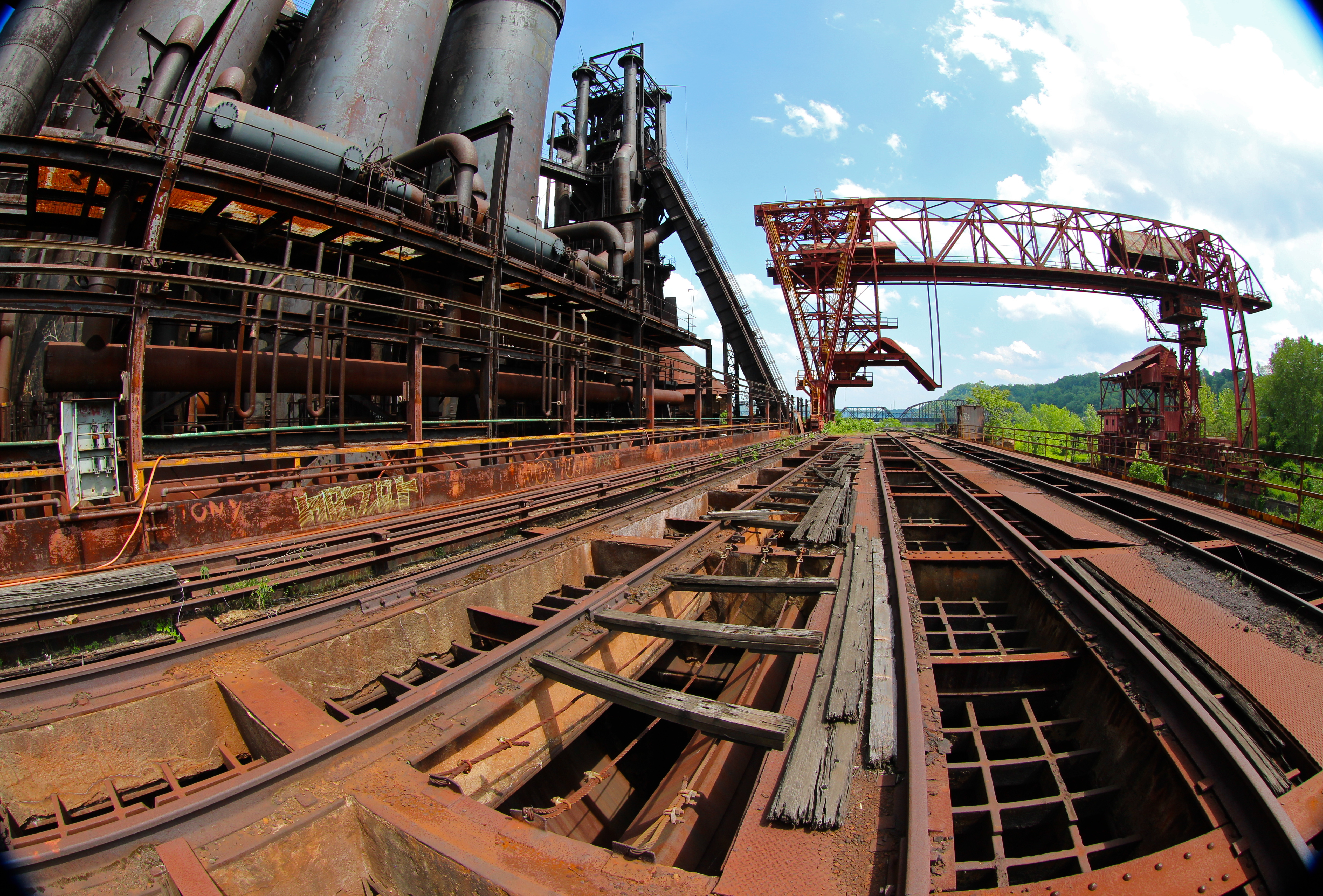 Rust belt orange on the banks of the Monongahela River (Mon River, as the locals call it).